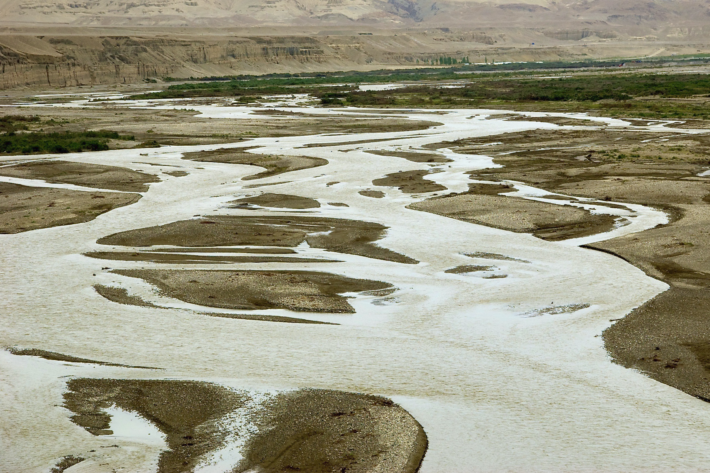 The Langqên Tsangpo (Sutlej River in India and Pakistan, tributary of the Indus River) seen from Tsparang (ancient Guge Kingdom), Ngari, Tibet, China